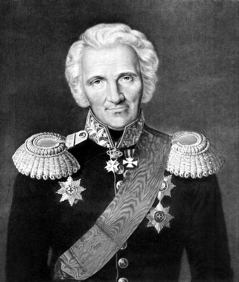 Prince von Liven, Karl Andreyevich (1767-1844) Russian Minister of Education